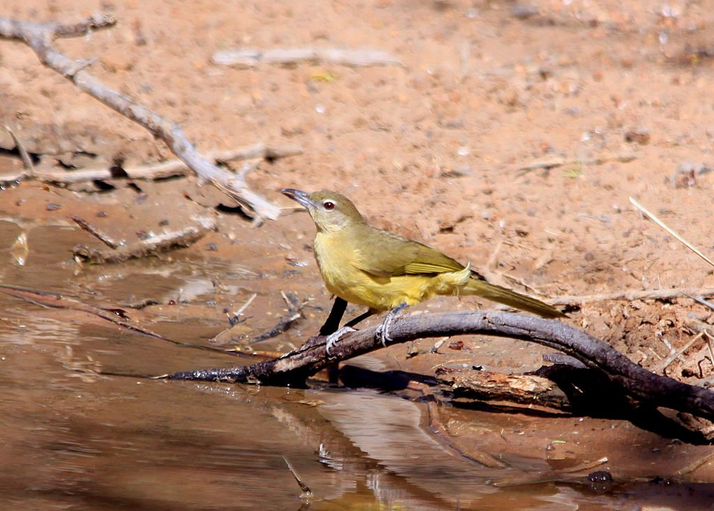 Yellow-bellied Greenbul, Chlorocichla flaviventris at Marakele National Park, South Africa